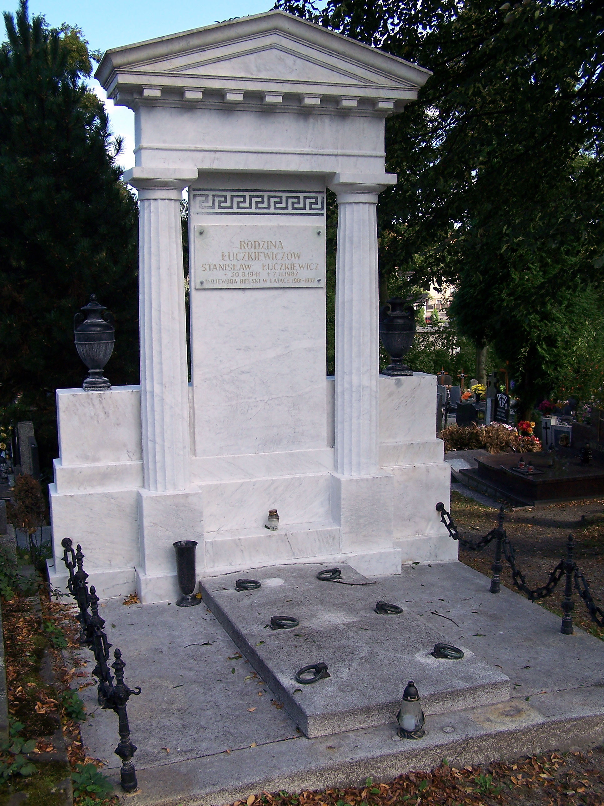 Grave of Stanisław Łuczkiewicz at the Communal Cemetery in Cieszyn, Poland